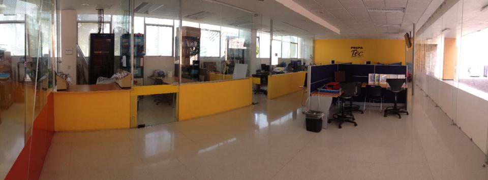 Salón de prácticas CECTEC